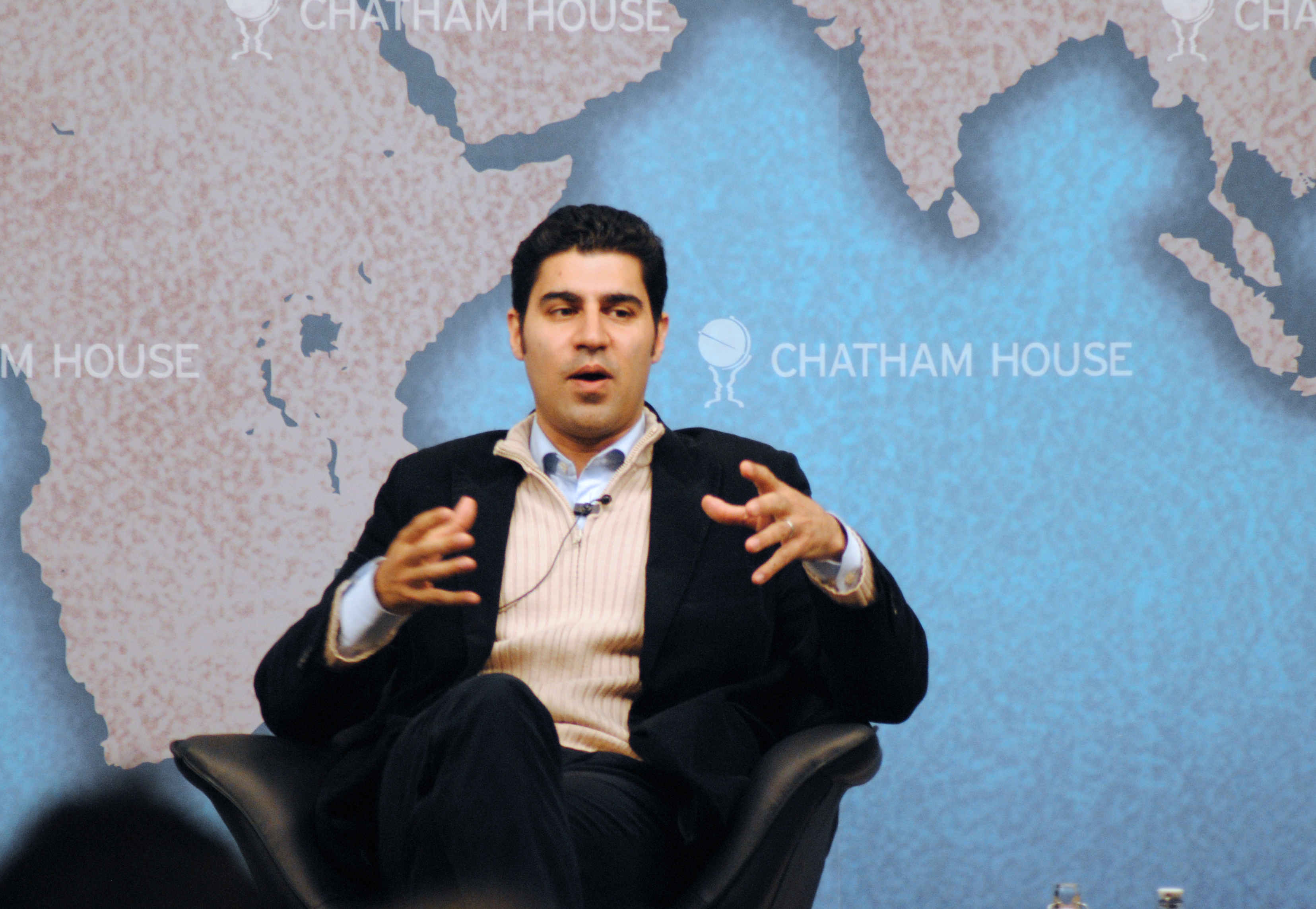 The Future of Globalization, 15 March 2012